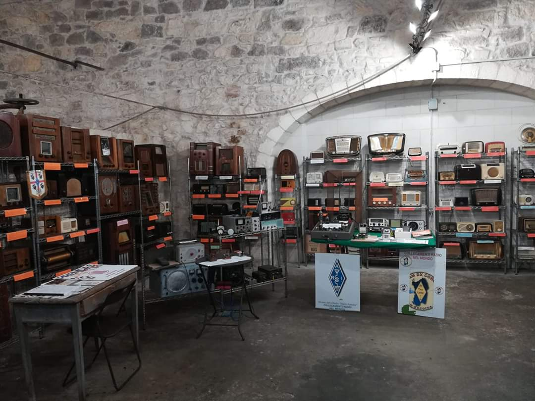 Private museal exhibition "Mario Faedda", created at an old mill, includes a radiomuseum. Owned by the heirs of notary Mario Faedda, who used to define himself as a "gatherer" of vintage radios; he used to go to many fairs and in many years of collecting he succeeded in realizing his own exhibition. Many radioreceivers from 1923 to 1980 are displayed into the museum, and there is amateur radio equipment too.